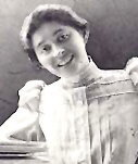 Anna Strunsky as a young woman ca 1900